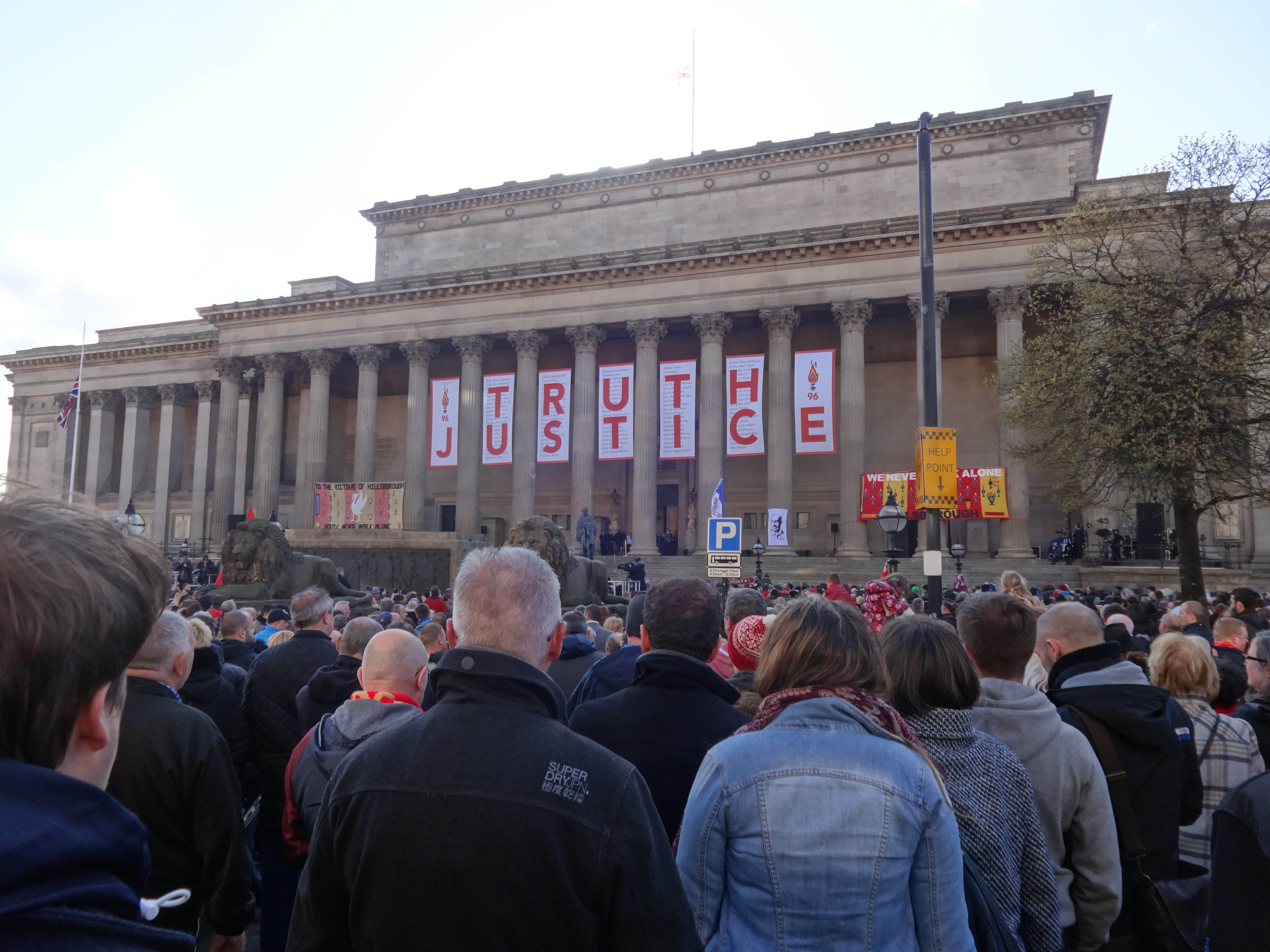 Vigil to remember the 96 victims of Hillsborough, April 2016 at St Georges Hall Liverpool